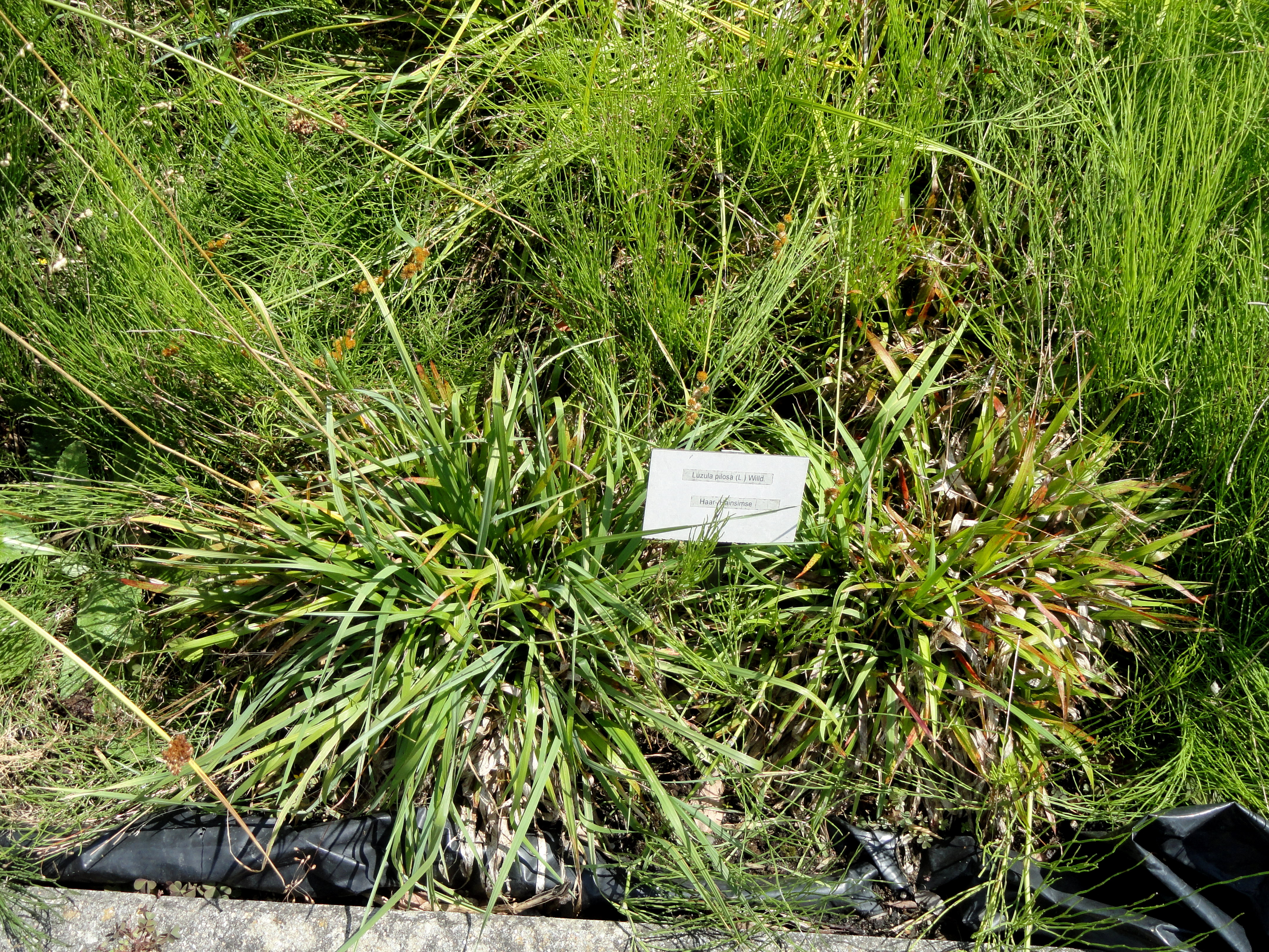 Botanical specimen in the Botanischer Garten, Frankfurt am Main, located at Siesmayerstraße 72, Frankfurt am Main, Germany.